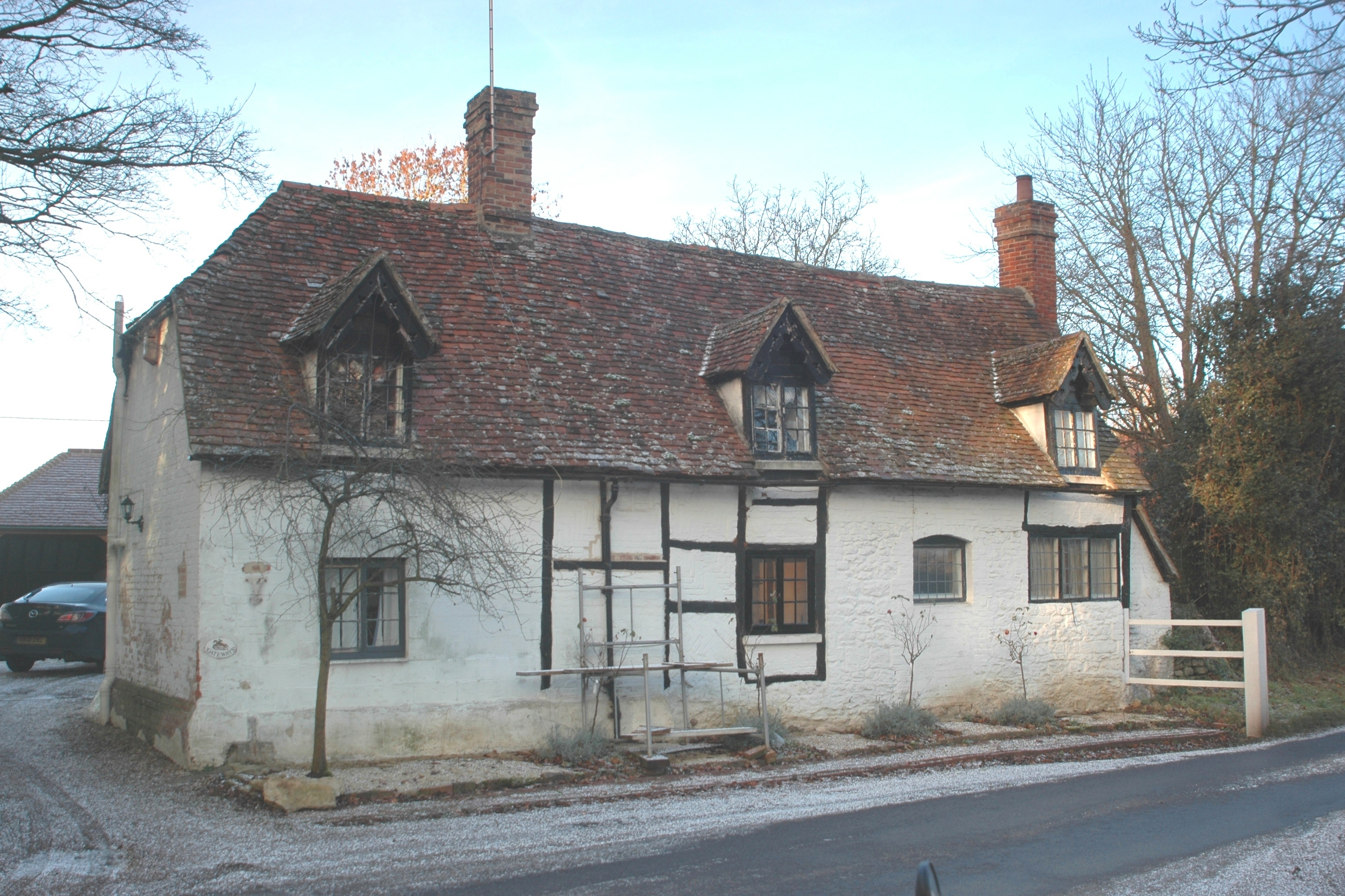 "Gateways", a late 17th or 18th century cottage in Baldon Lane, Marsh Baldon, Oxfordshire, England.